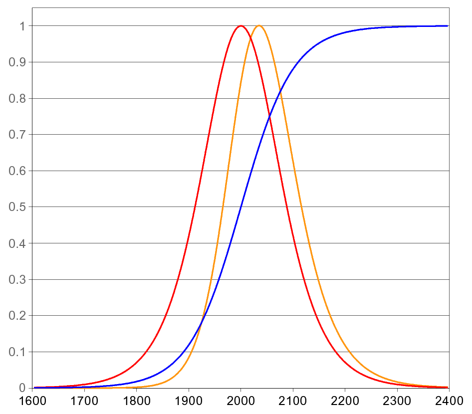 Example for a growth projection of the consumption of resources in some imaginary environment. The blue curve is the consumption (logistic function). The red curve is the growth (the 1st derivative of the logistic function) normalized to 1. The orange curve is the growth weighted by the consumption and normalized to 1 as well.